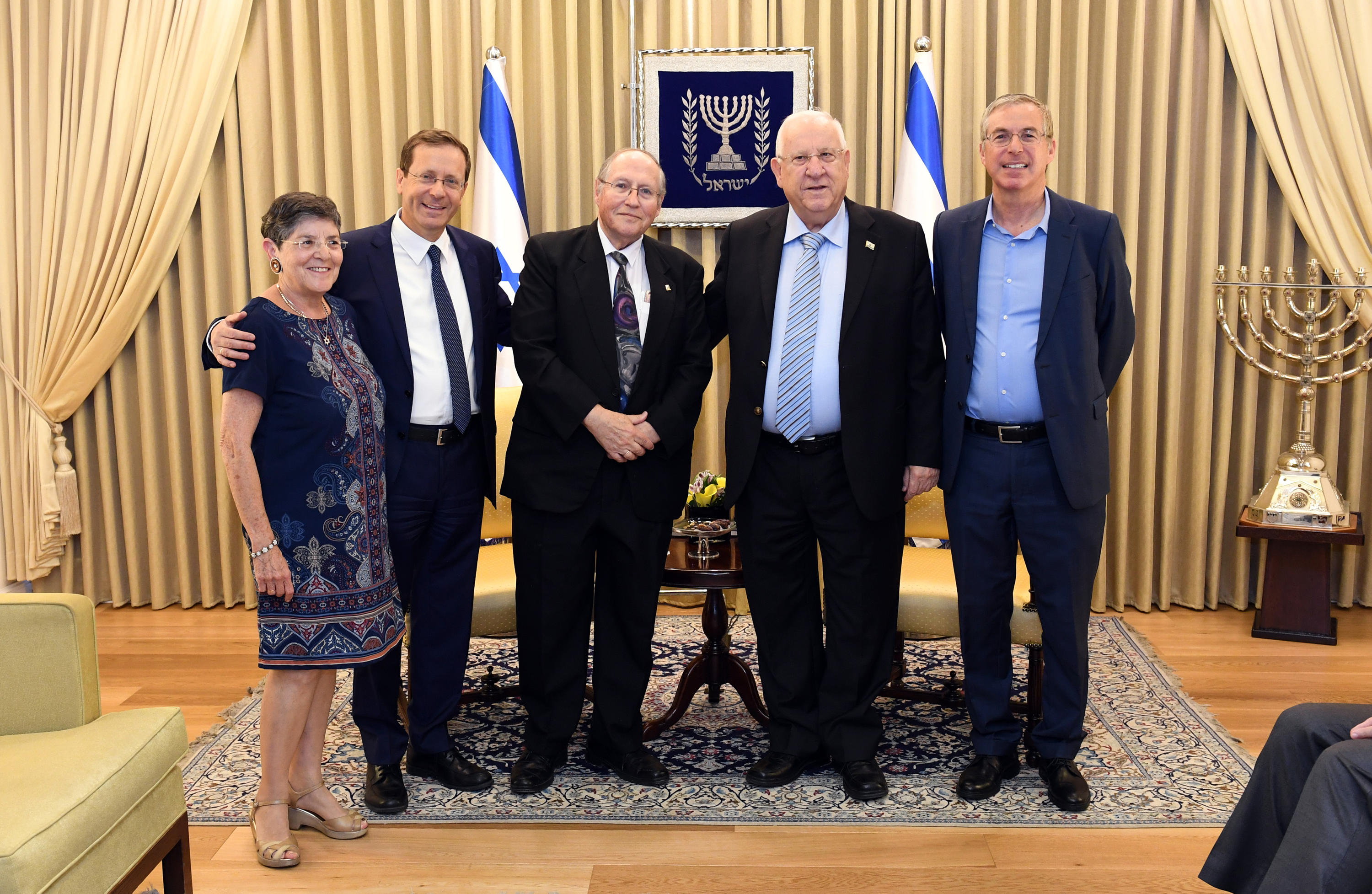 ראובן ריבלין נשיא מדינת ישראל במפגש עם זוכה "פרס חיים הרצוג", המשנה לנשיאת בית המשפט העליון לשעבר אליקים רובינשטיין בתמונה: מימין לשמאל – מיכאל (מייק) הרצוג, ראובן ריבלין, אליקים רובינשטיין, יו"ר הסוכנות היהודית יצחק (בוז'י) הרצוג ורעייתו של אליקים רובינשטיין, מרים.